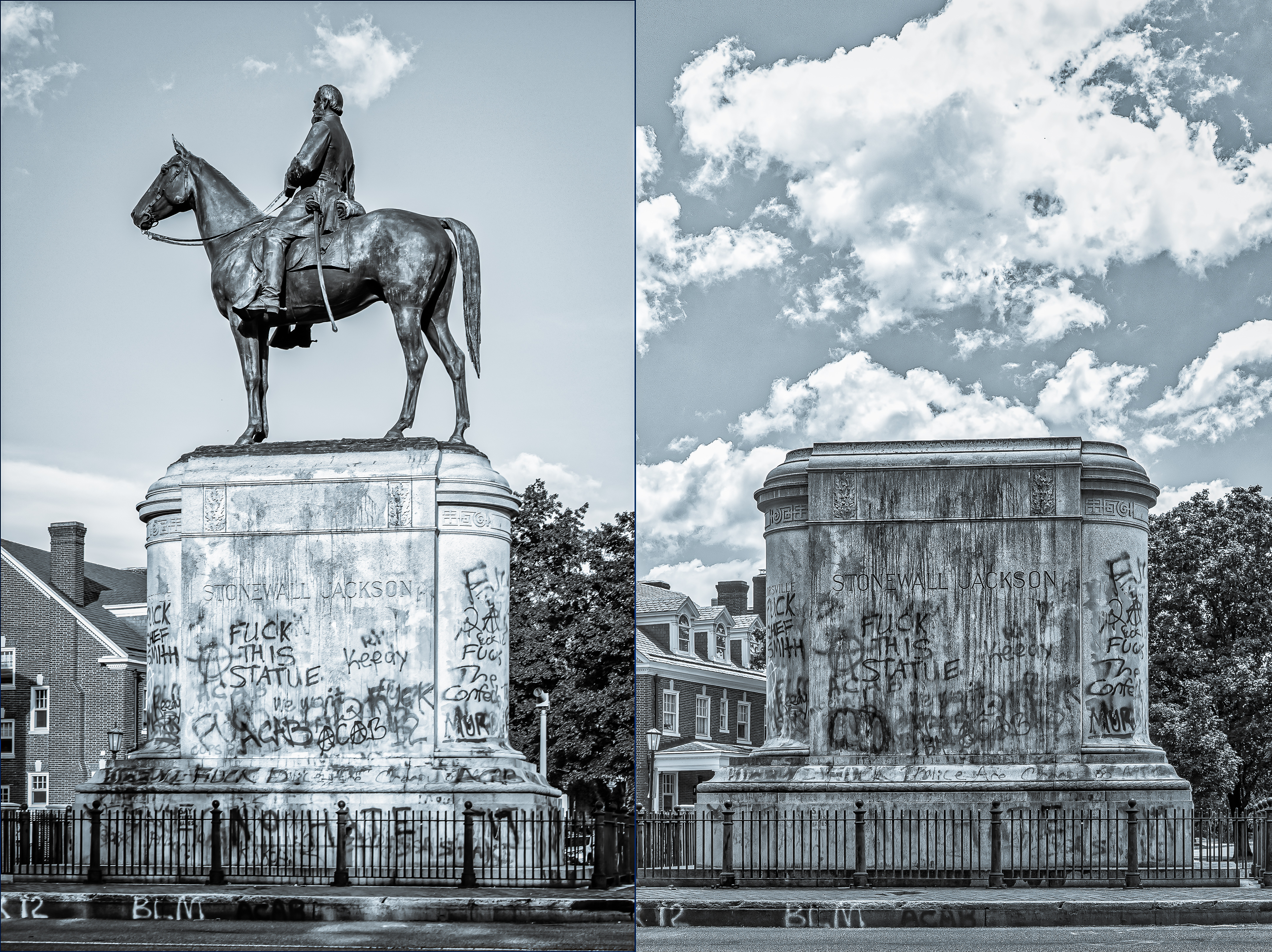 The statue of Confederate officer Thomas Jackson, which had been placed on Monument Avenue in Richmond, VA, the former capital of the Confederate States in 1919, was removed by the City on 1 July 2020. BLM.